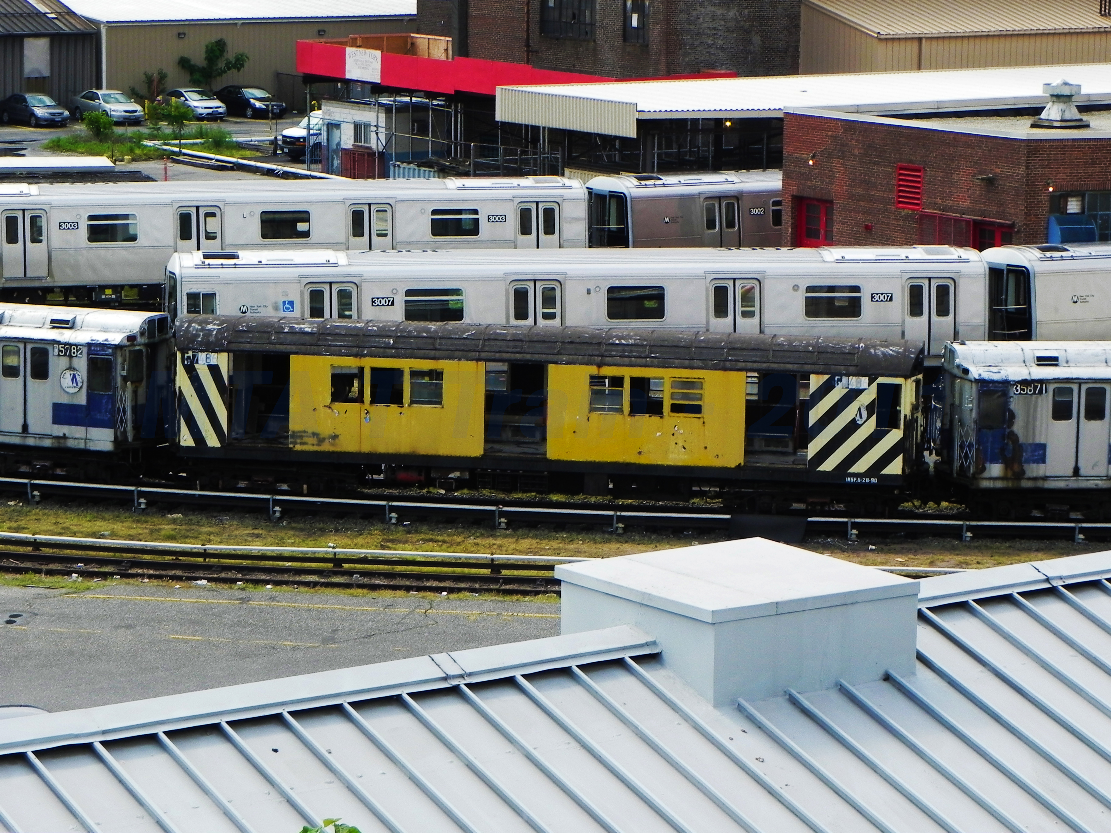 MTA NYC Subway R22 7486 (G7486) at the 207th St Yard.